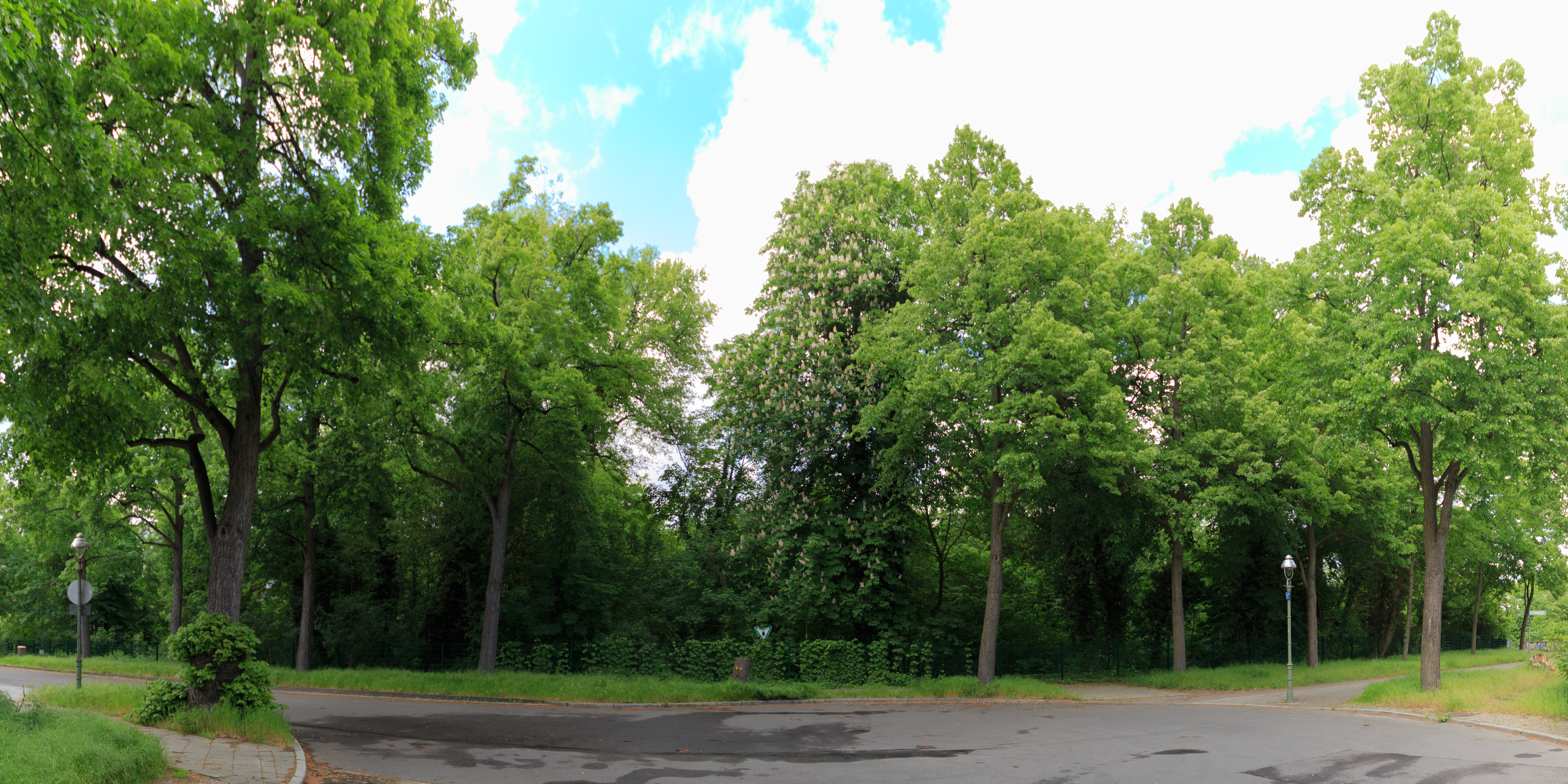 View from Krahmer street on the nature reserve Gutshaus Lichterfelde.